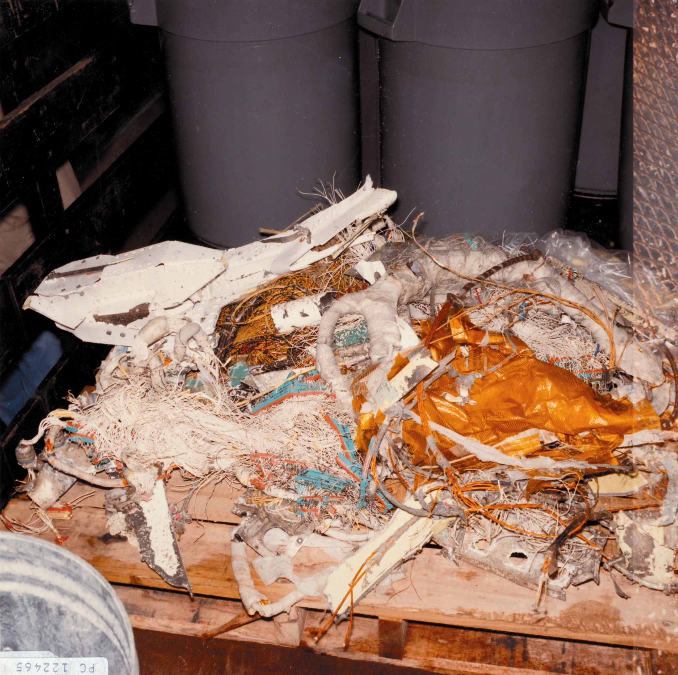 On January 28, 1986, the Space Shuttle Challenger and her seven-member crew were lost when a ruptured O-ring in the right Solid Rocket Booster caused an explosion soon after launch. On this mission, the Space Shuttle Challenger's payload bay carried an Inertial Upper Stage (IUS) rocket that was to launch an attached Tracking and Data Relay Satellite (TDRS) from space. Search and recovery teams lifted pieces of the 40,000- pound IUS/TDRS from the Atlantic Ocean. Although the pieces were badly deformed, the lack of any fire damage marring the debris supports the investigative team's conclusion that the IUS played no part in the accident.